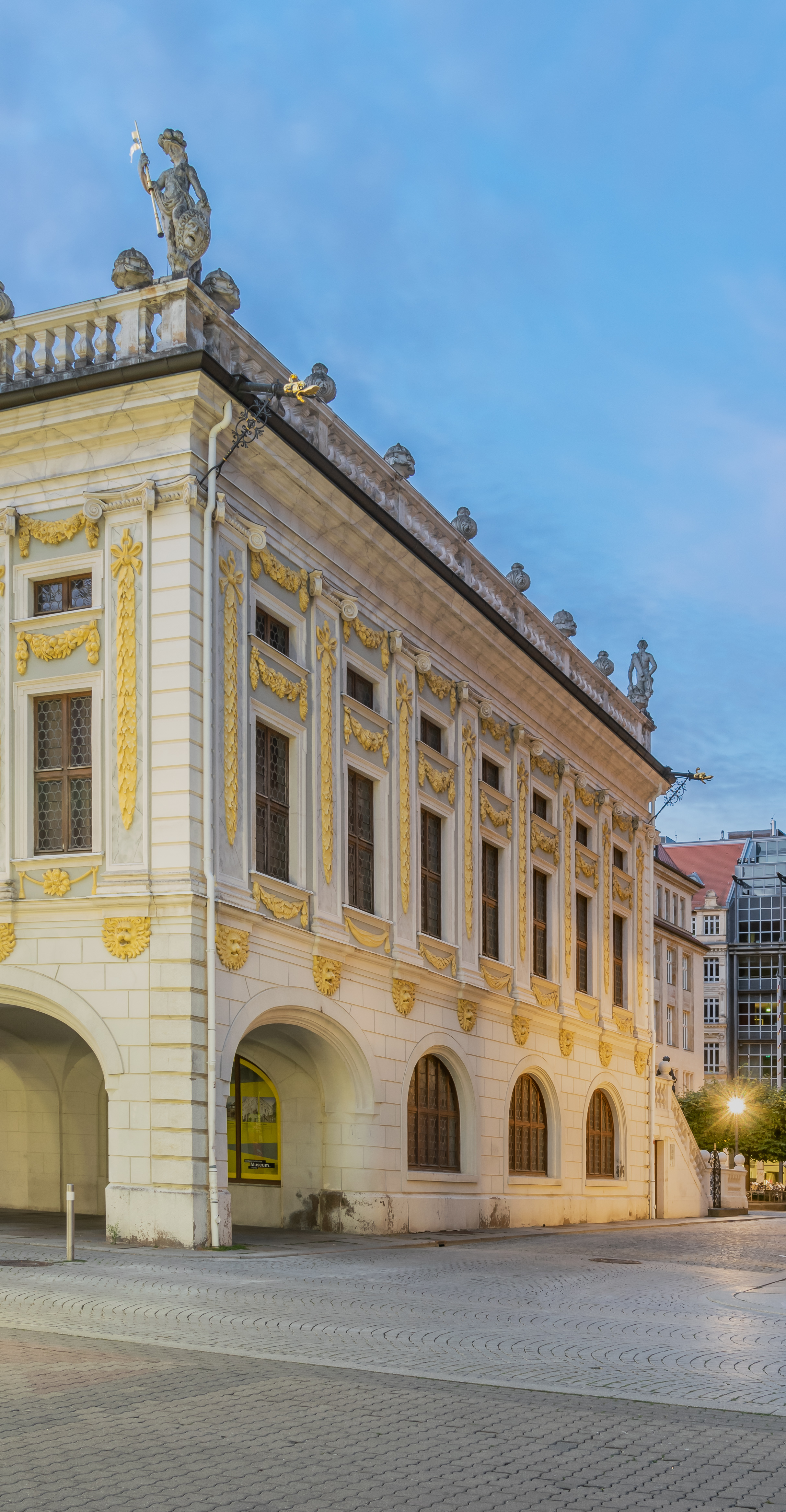 Old stock exchange in Leipzig, Saxony, Germany